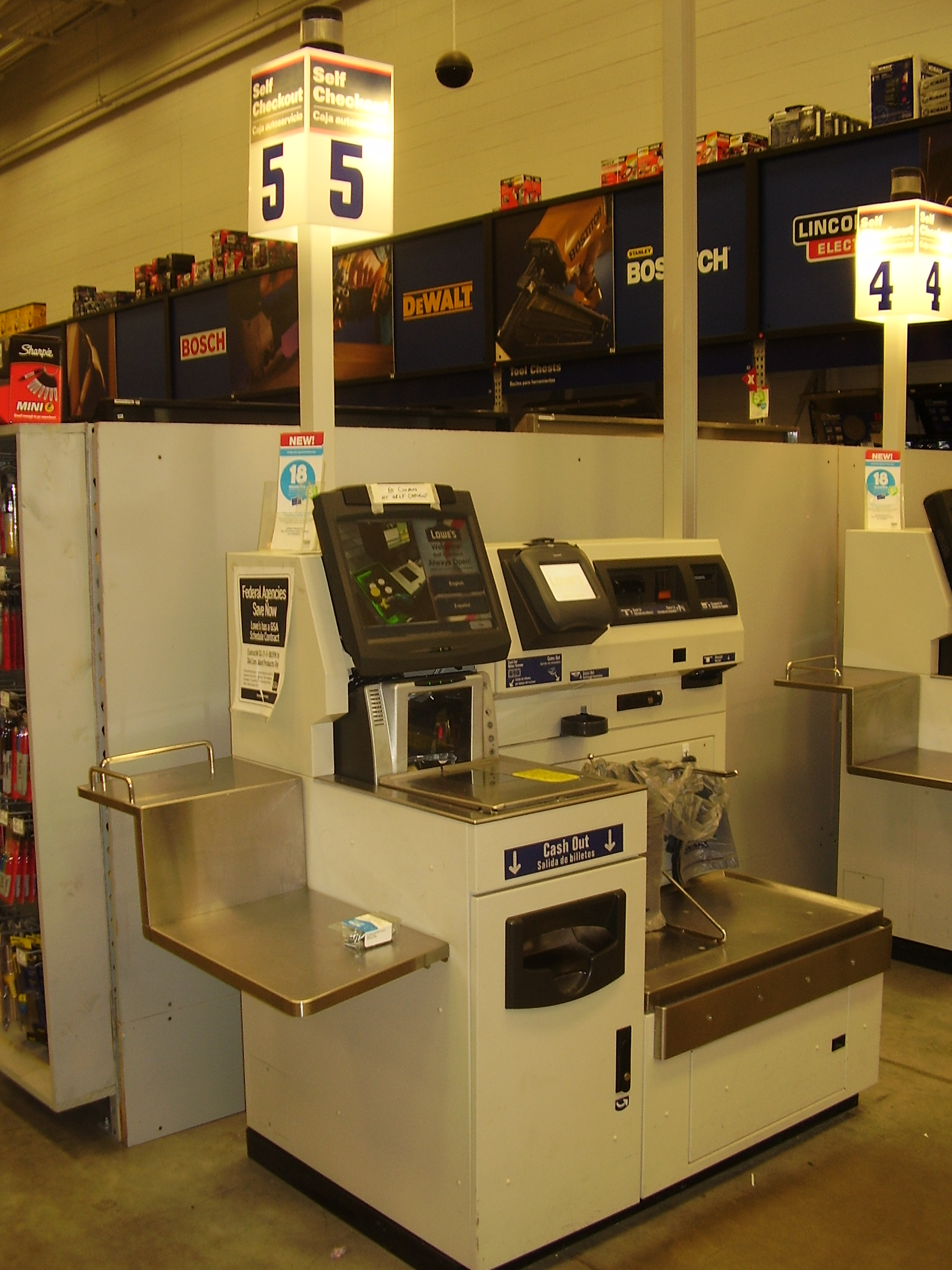 Self checkout machine - Lowe's of Meyerland - Store # 1570